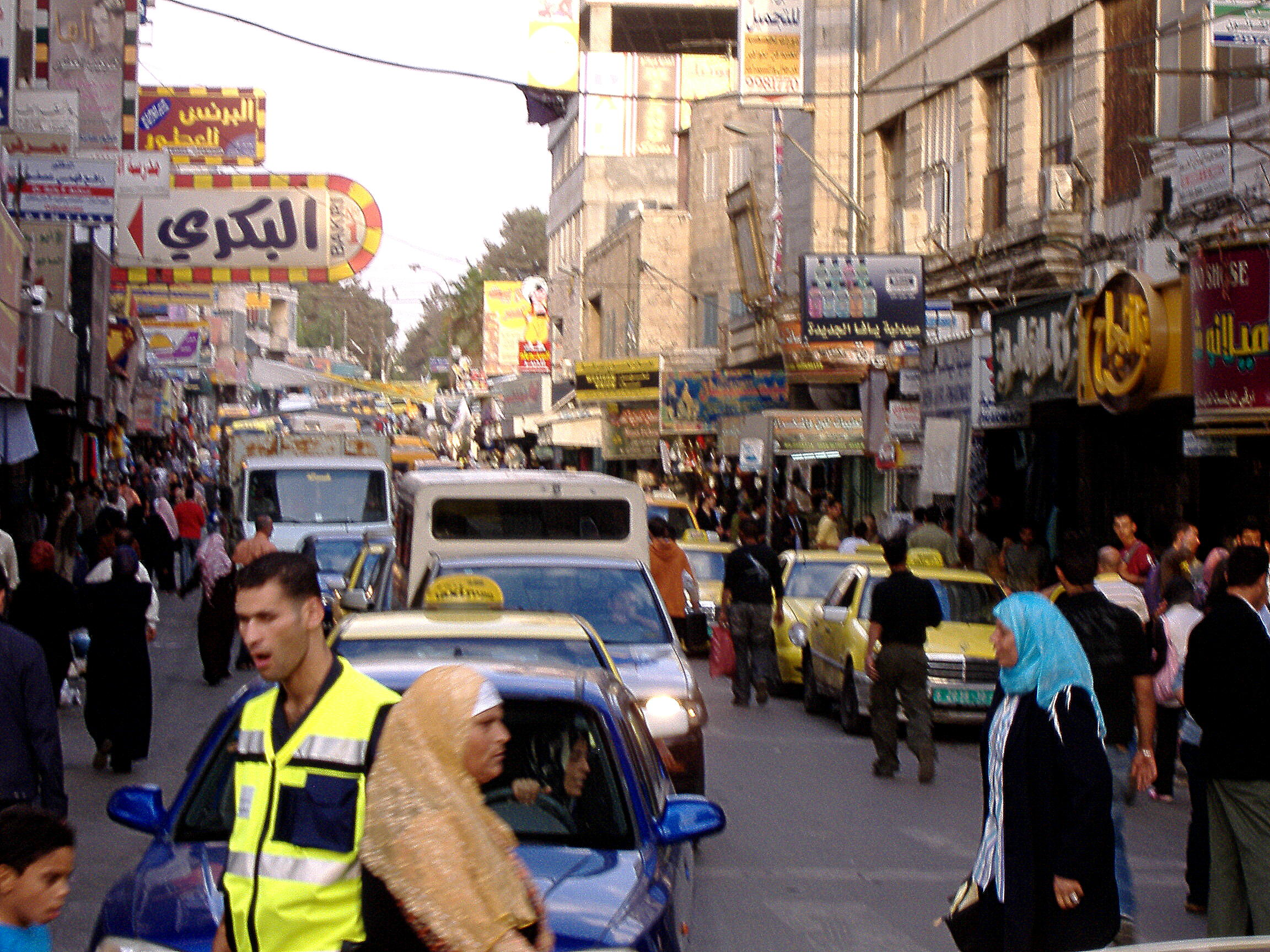 Central street of Ramallah